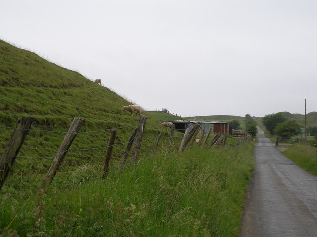 Sheep graze on the side of an old spoil heap